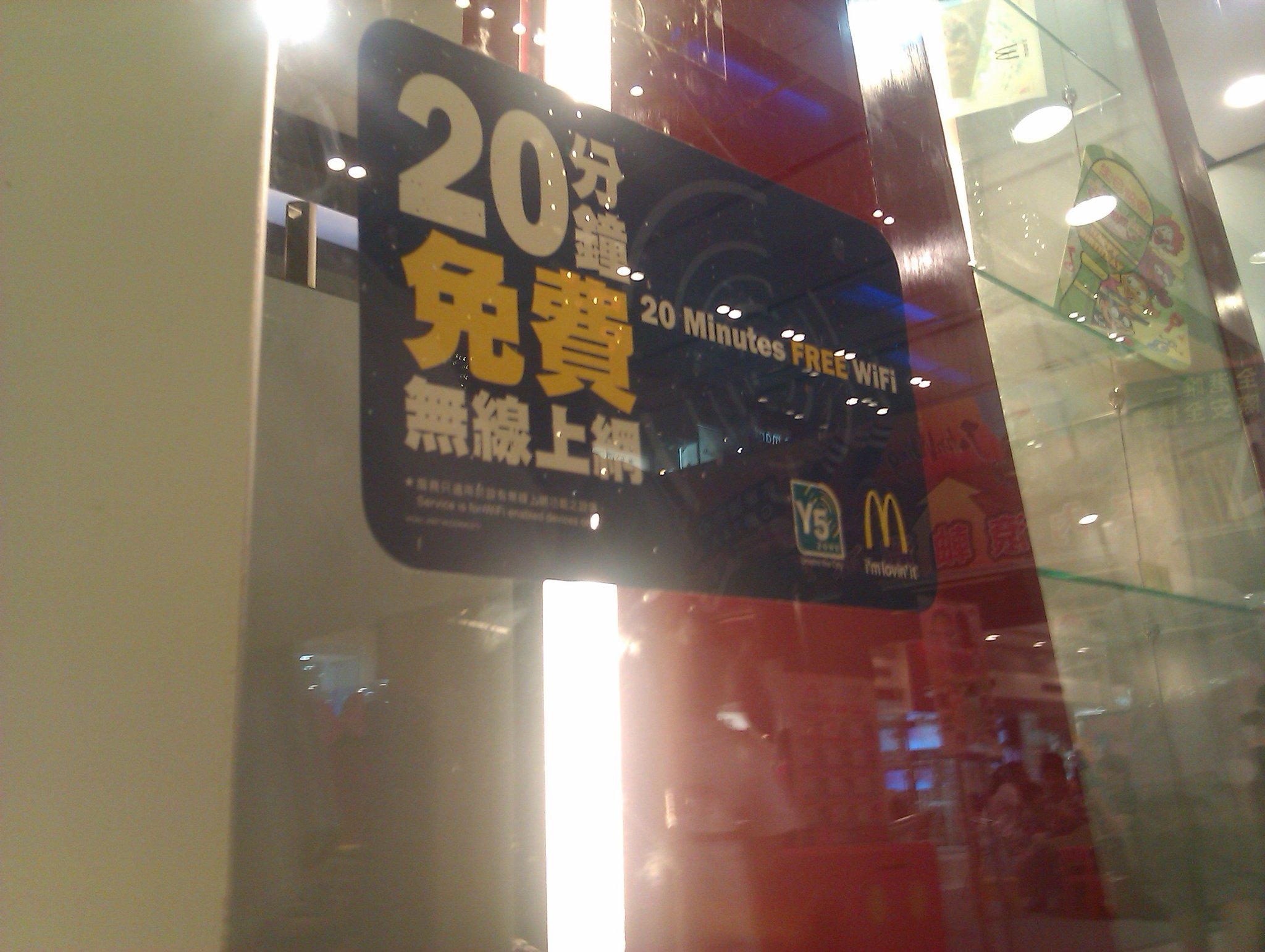 A Y5ZONE Hotspot in Park Central, Hong Kong.